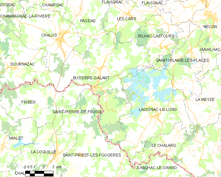 Map of French municipality Bussière-Galant